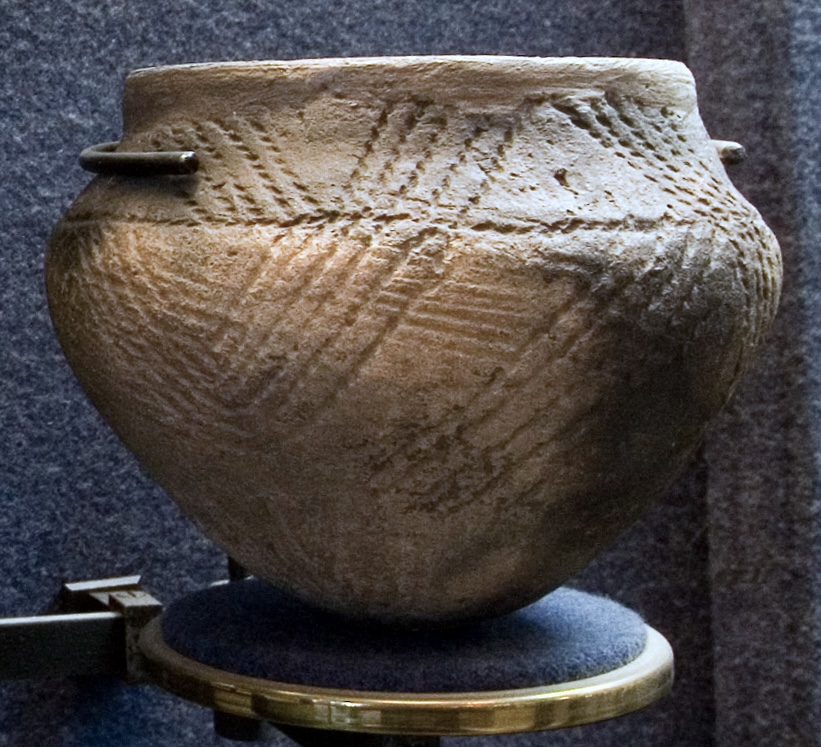 Yamna Corded Ware from the collection of the Hermitage Museum in St. Petersburg in Russia.